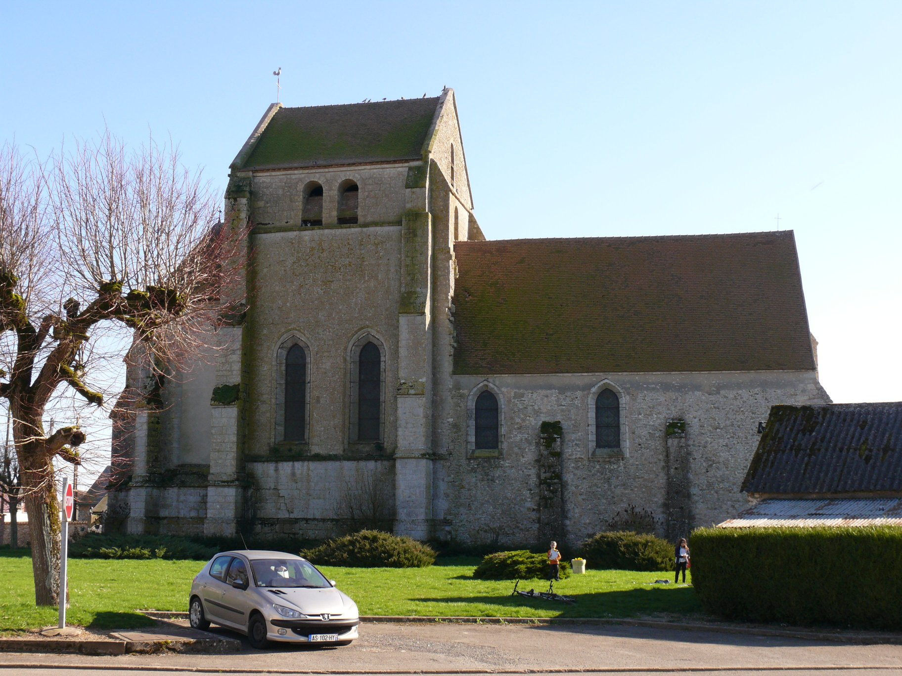 Saint-Georges-and-Saint-Gilles' church of Santeuil (Eure-et-Loir, Centre, France).